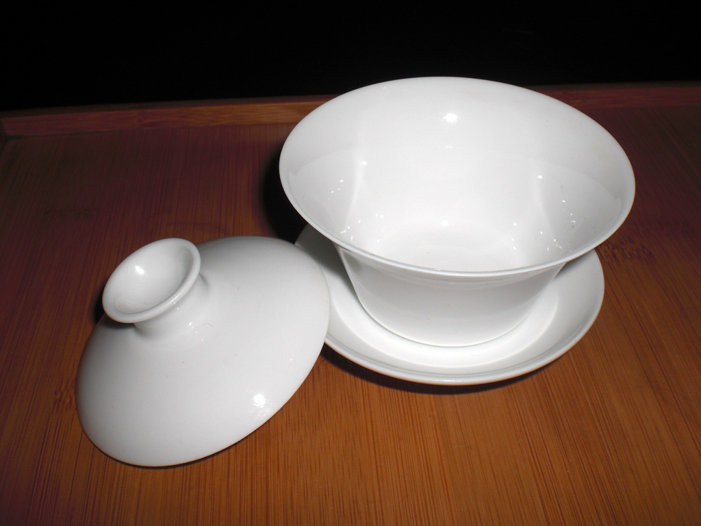 Tea in Zhong